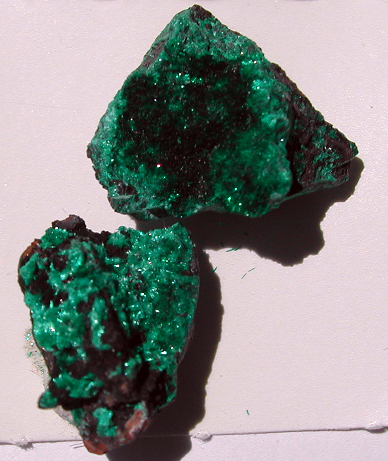 Brochantite from Amor Mine, Copiago, Chile